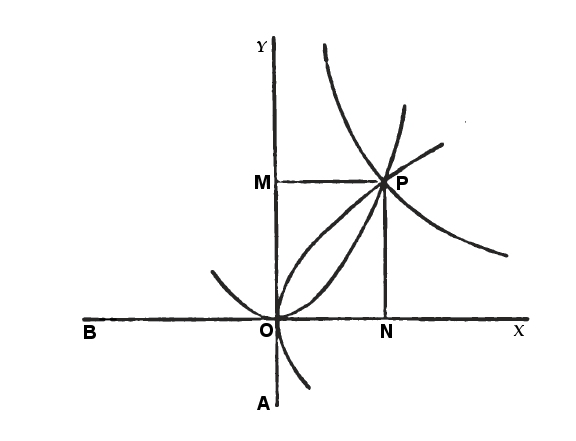 Menaechmus' Doubling the Cube solutions in T. H. Heath, Apollonius of Perga (1896)